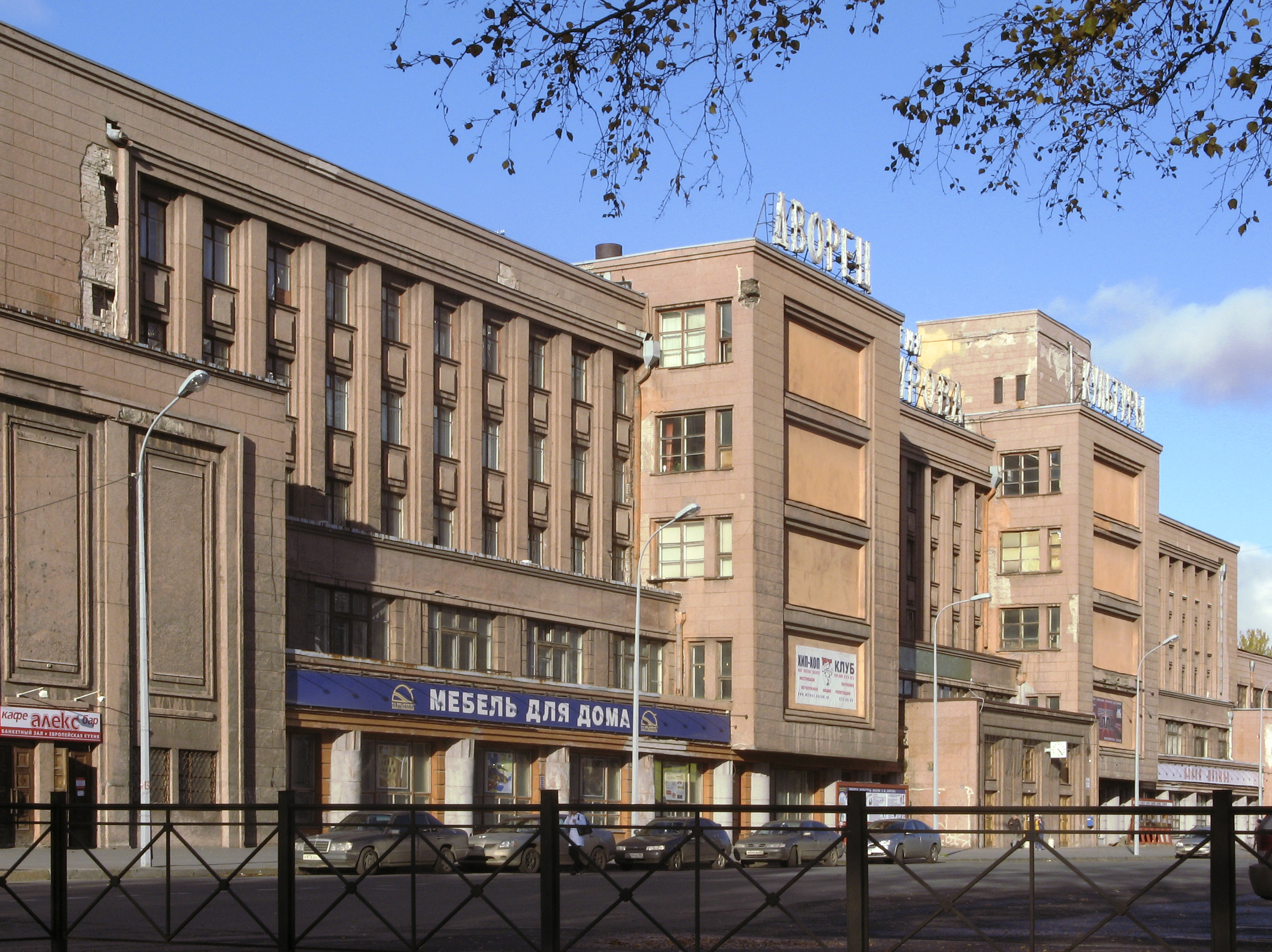 DK Kirova, view from left. Saint-Petersburg.